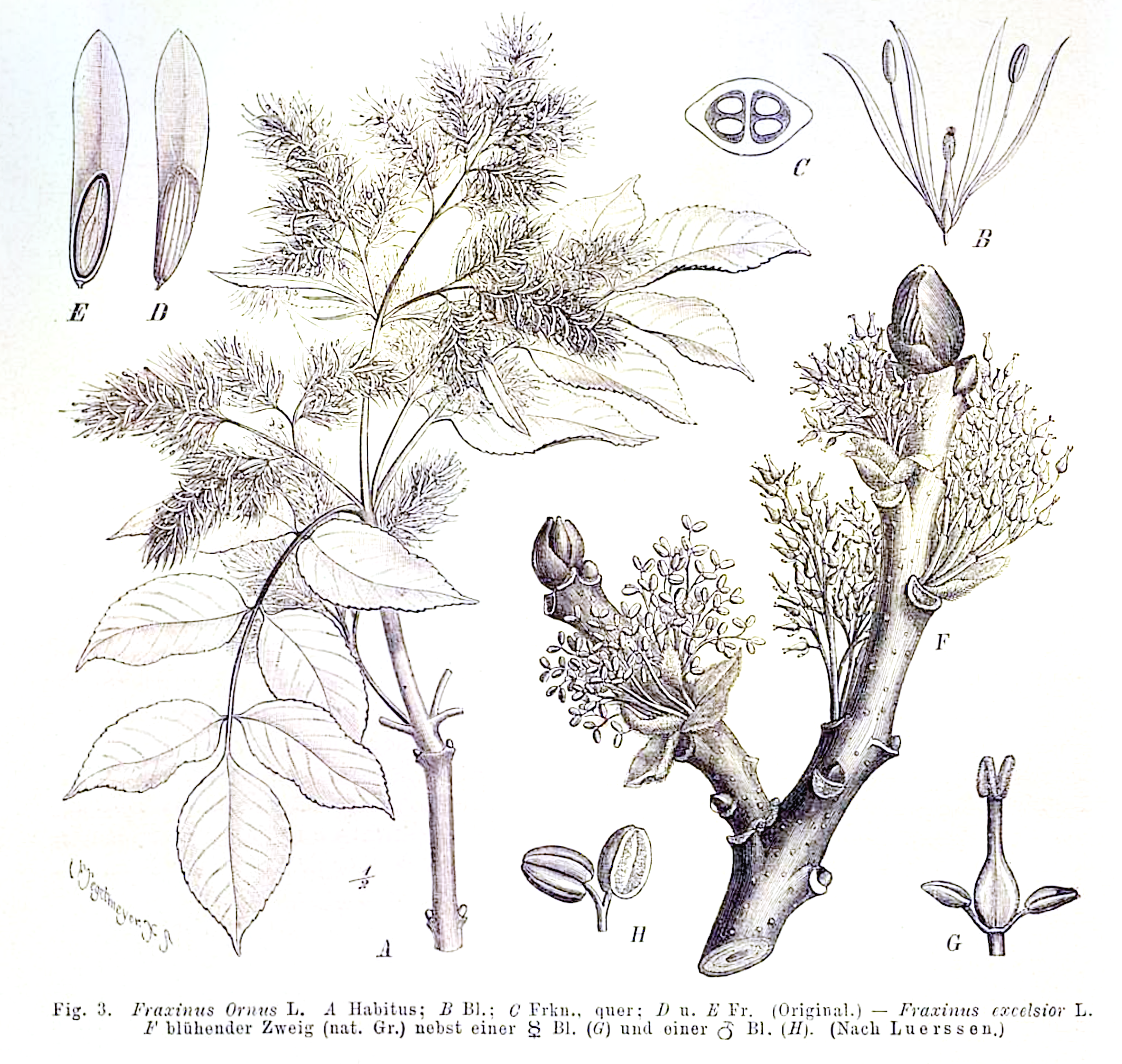 Illustration of Fraxinus Ornus and Fraxinus excelsior. F. ornus L. A. Habitus. B. Flowers. C. Ovary cross D/E. FruitsF. excelsior L. F. Blooming branch with both a fem. (G) and male (H) flower.